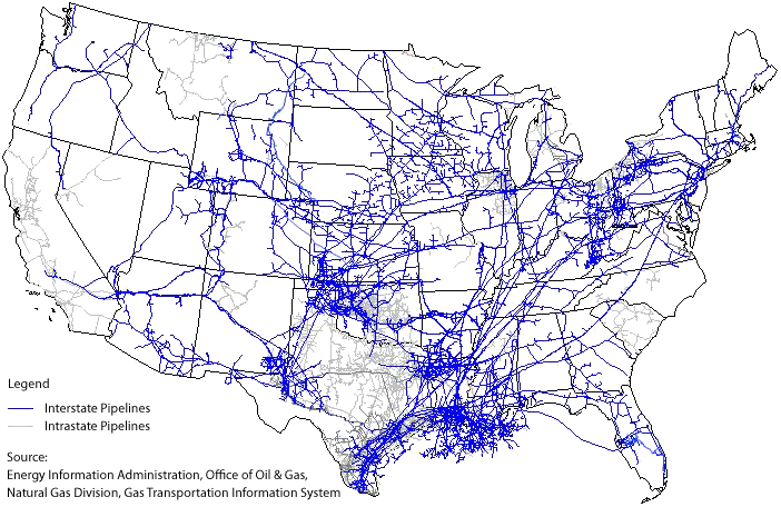 Map of US natural gas pipelines